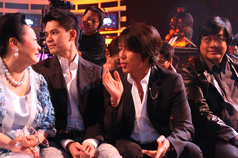 KhunyingPontip And PBird